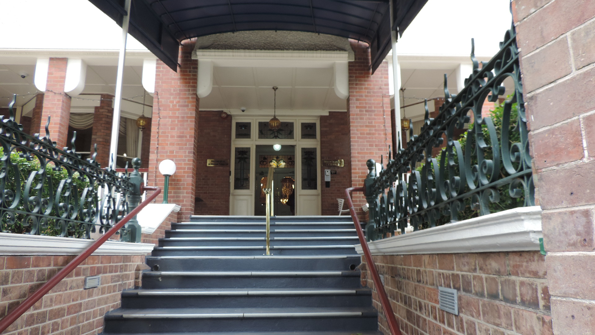 Entrance, Montpelier House, United Services Club Premises, Wickham Terrace, Spring Hill, Brisbane, 2015